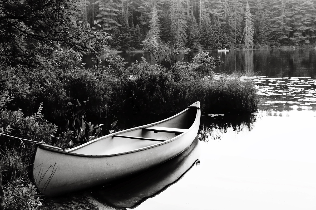 Docked canoe on Pog Lake in Algonquin Park. Summer, 2013.